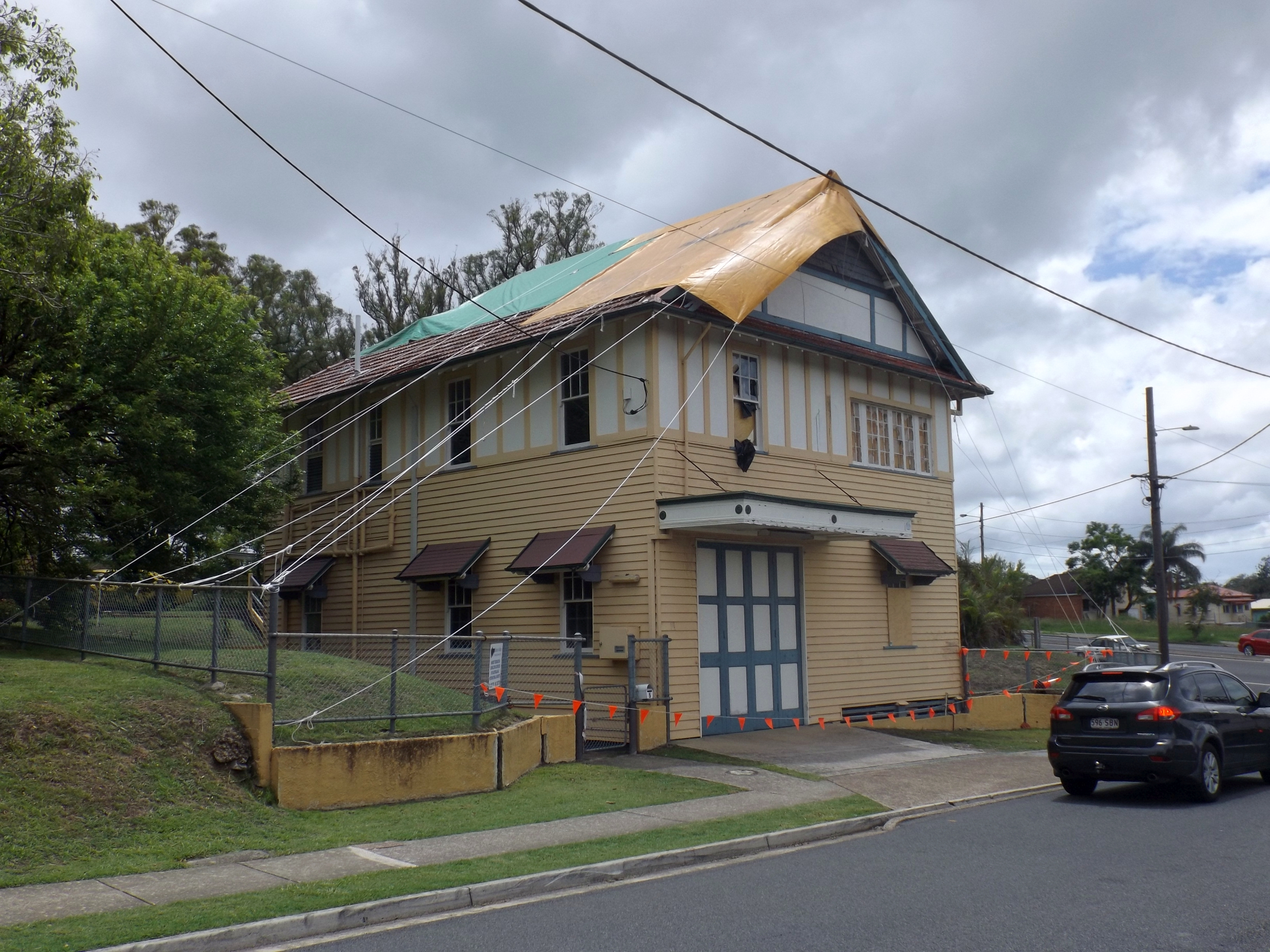 Photo of former Yeronga Fire Station at Yeronga, Brisbane, Queensland, Australia. The building was covered by temporary protection measures following a severe hail storm in December 2014.